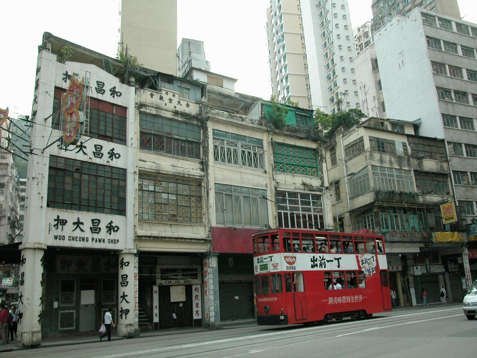 Tram ways in Wan Chai, Hong Kong